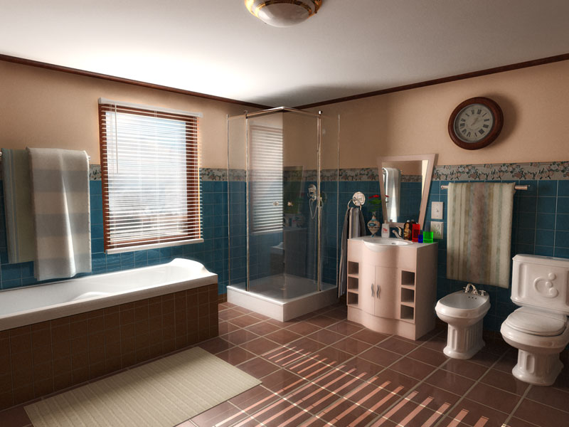 VRay style Mental ray for Maya rendering test! Maya Nurbs and Poly Modeling, Mental Ray Area Lights, Image Based Lighting and Final Gather! Ambient Occlusion and final output to EXR format! Modeling, texturing and rendering by Alex Sandri. Keywords: 3d, Autodesk, Maya, Cg, Digital, Art, Architecture, Visualization, Bangkok, Thailand, Koh, Samui, Alex, Sandri, Graphics, Animations, Rendering, Mental Ray 3D Autodesk Maya & Mental ray Architectural Visualizations.